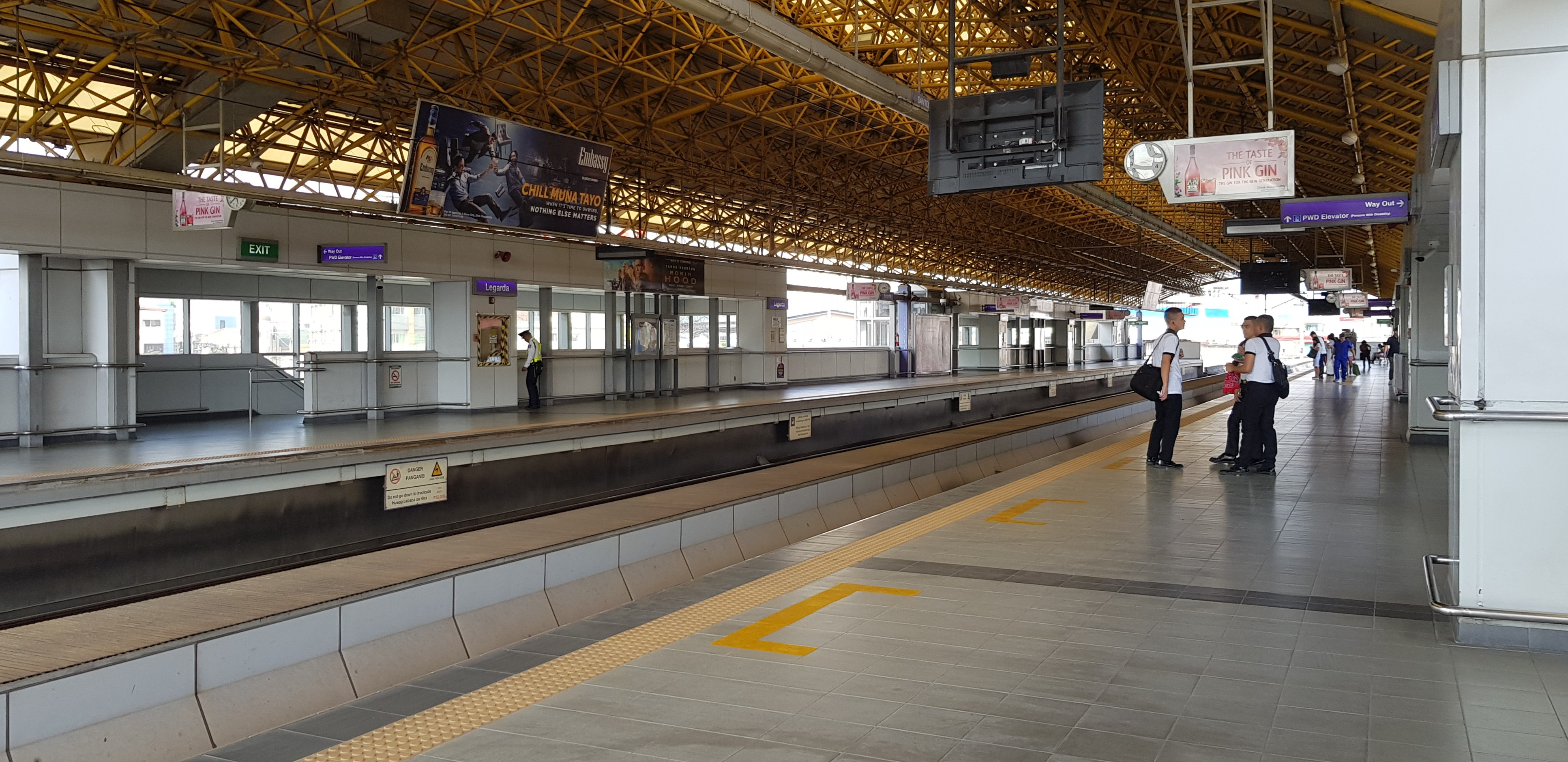 Line 2 Legarda Station Platform